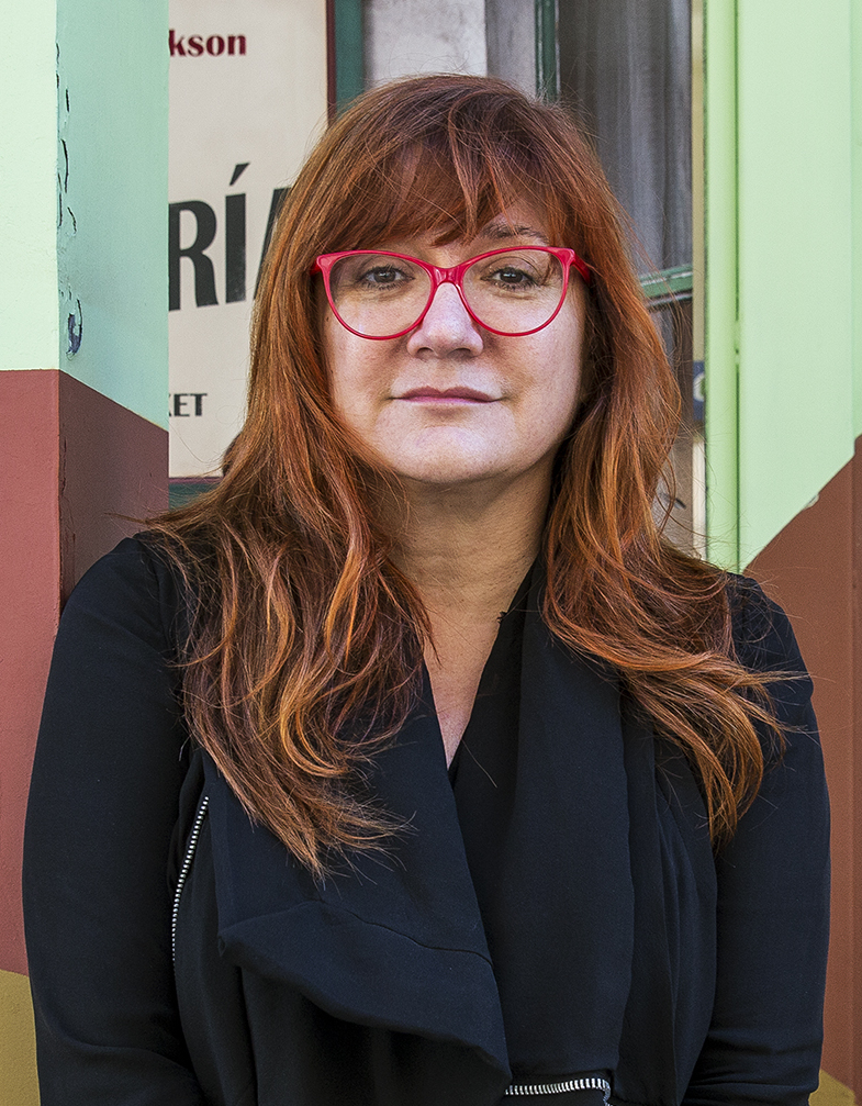 Isabel Coixet, director of the film The bookshop